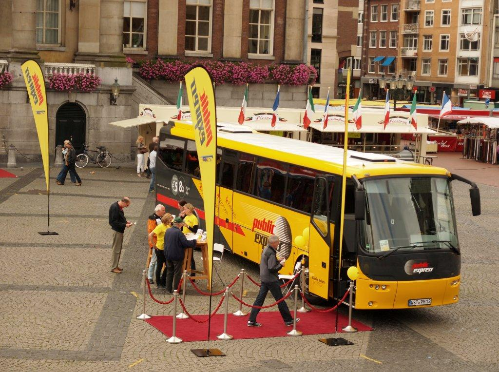 Presentation of the new Publicexpress bus in Groningen, the Netherlands